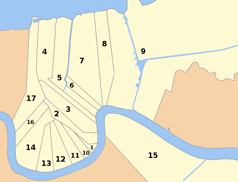 Map of the 17 wards of New Orleans with number labels. Note that the map doesn't show all of the 9th and 15th Wards.